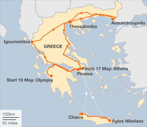 Map of 2012 greek torch relay